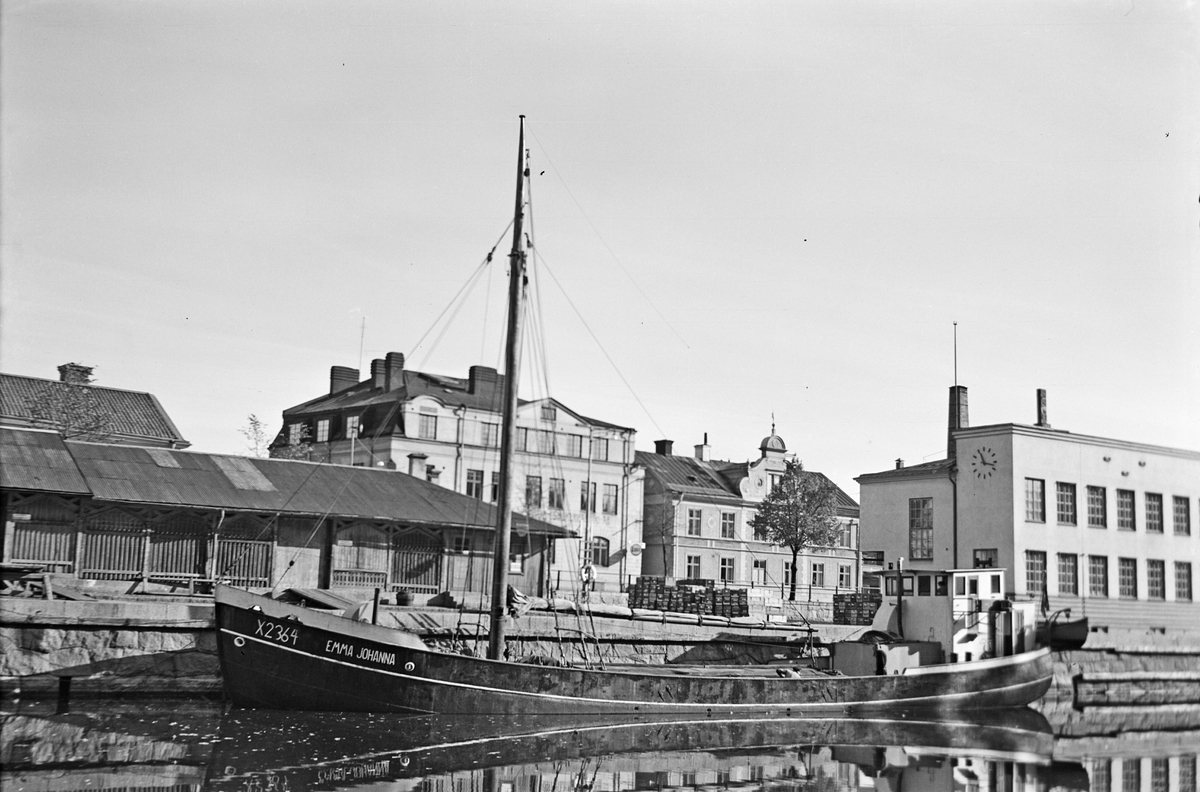 Coastal motor vessel EMMA JOHANNA built at Schiffswerft D. Ropers, Stade, in 1913 as schooner AMANDA, later names: 1930 EMMA JOHANNA, lengthened and equipped with new engine in 1952, 1956 PERLE, 1974 GANGA J No.II, photo by J. Robert Boman (1926 - 2002), copyright owned by Sjöhistoriska museet.